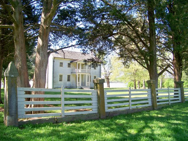 The front of Rock Castle in Hendersonville, Tennessee, USA.